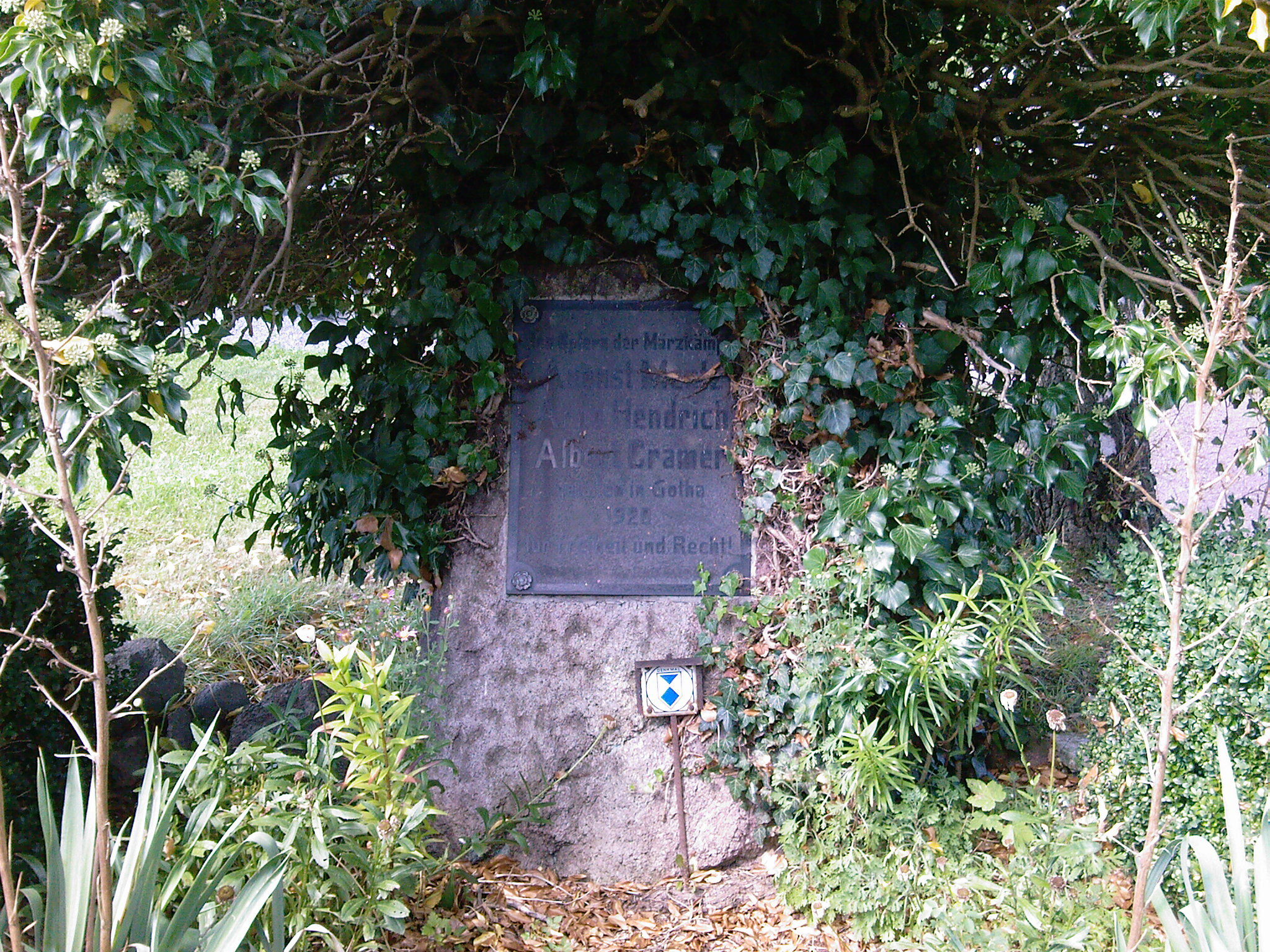 Memorial stone at the graveyard of Gräfenroda (Thuringia), remembering three leftist activists which were killed in or around Gotha in March 1920 during the right-wing Kapp-Putsch.